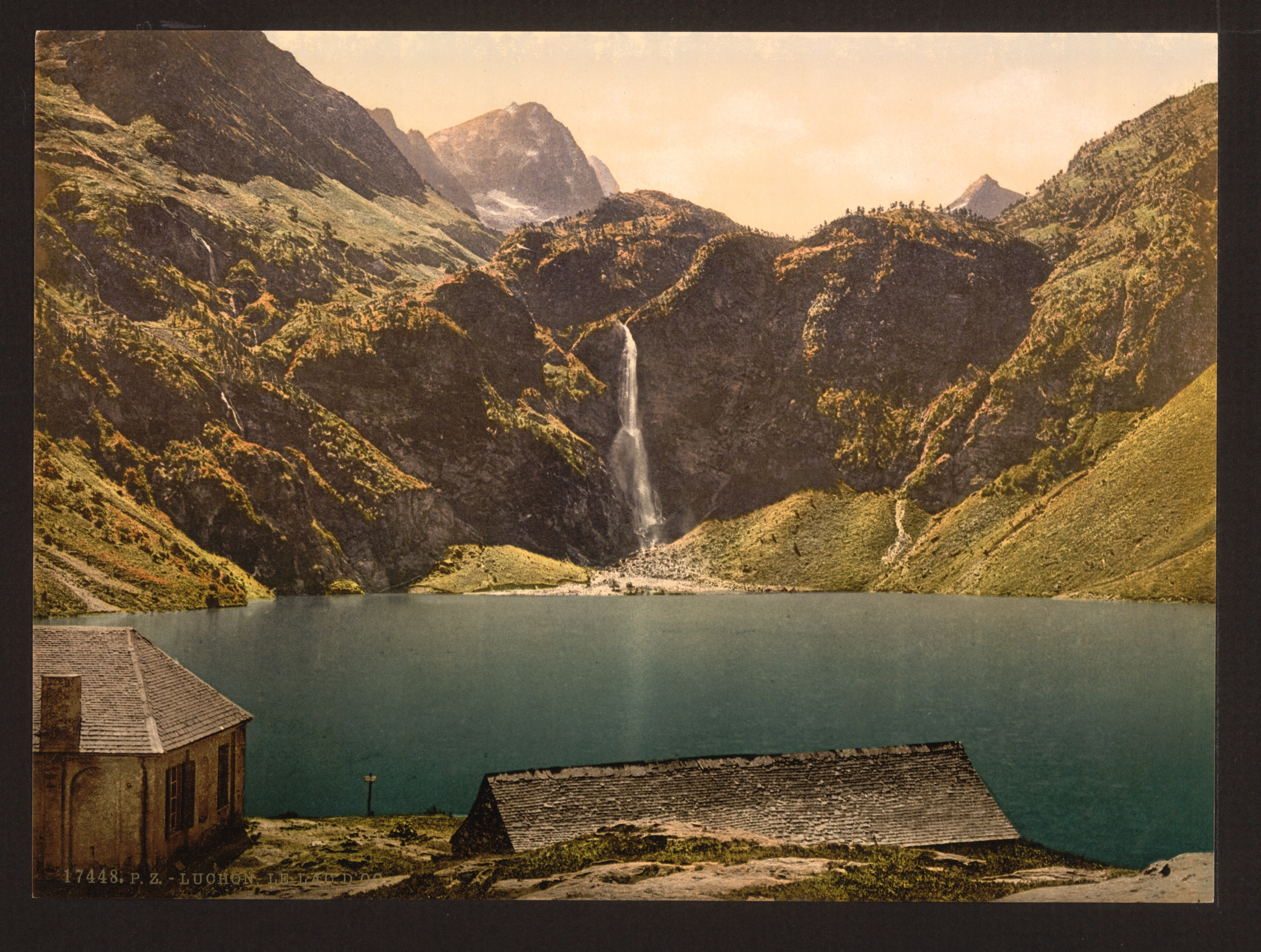 The lake of Oô, Luchon, Pyrenees, France.